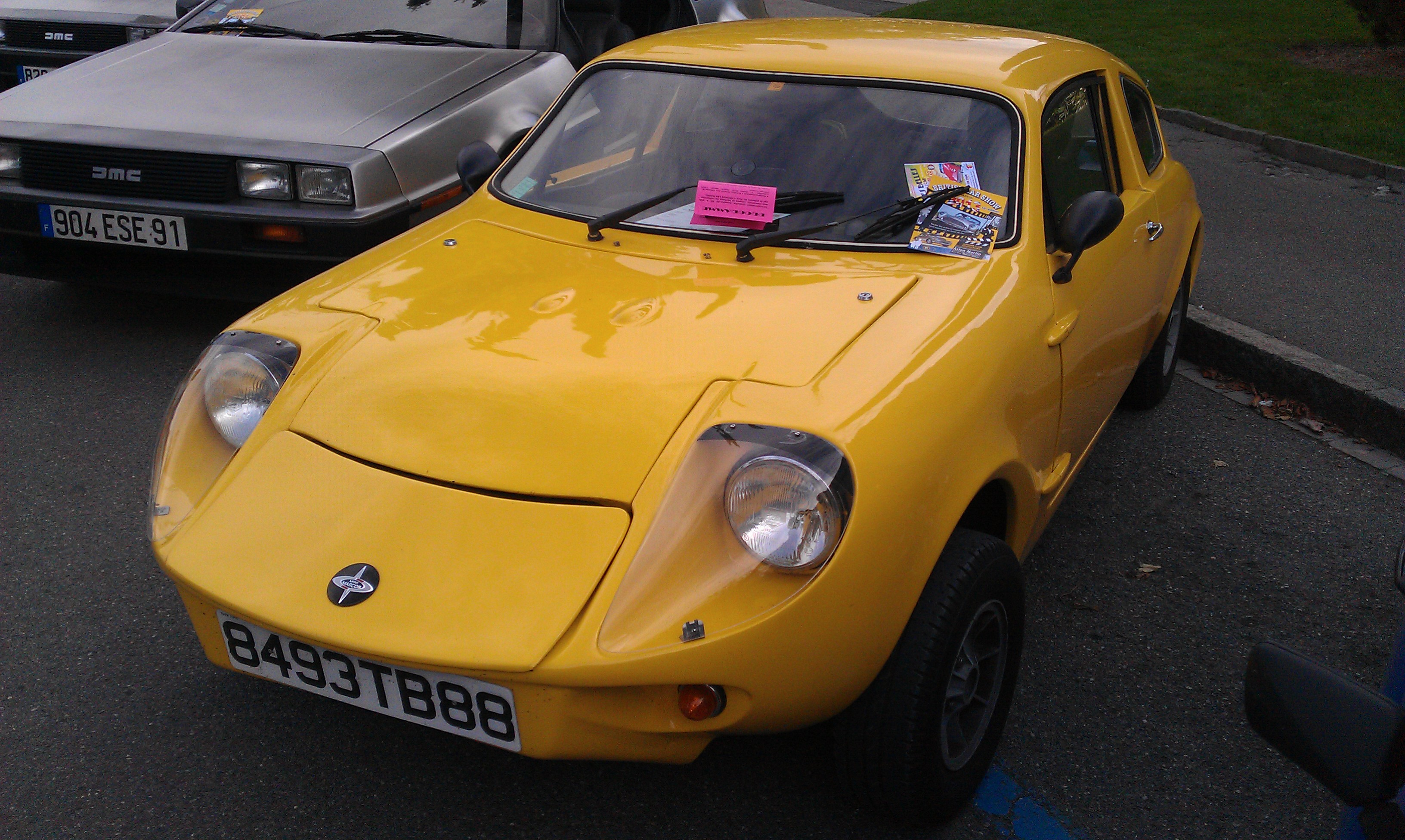 1974 Mini Marcos Mk. IV, serial number 8052. Original UK registration was XCO712M. According to the DVLA it had a 1098cc engine.